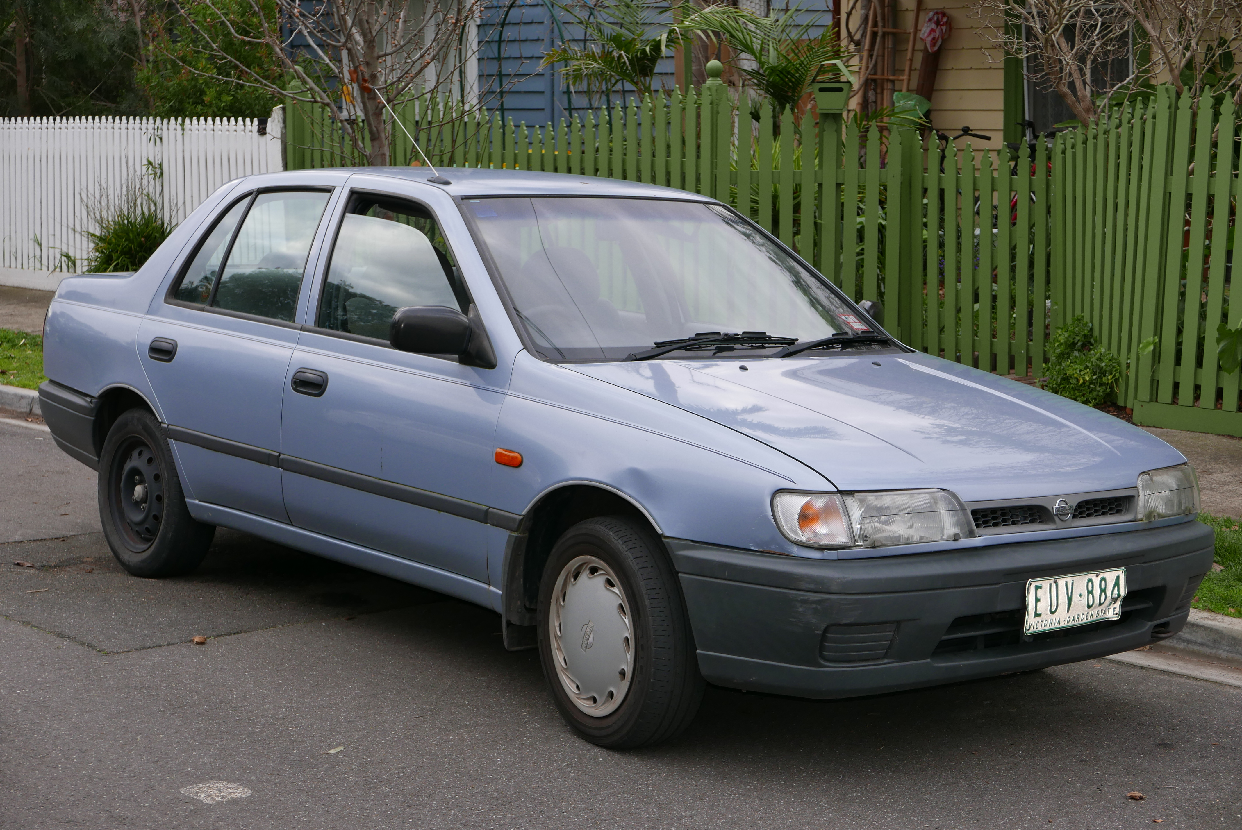 1991 Nissan Pulsar (N14 ES) GLi sedan. Photographed in Fairfield, Victoria, Australia. Vehicle registration enquiry results Jurisdiction Victoria Registration EUV884 Chassis code 6F4SEAN14M0E00839 Engine code GA16A000784 Compliance date 1991-10 Year of manufacture 1992 (not a typo)